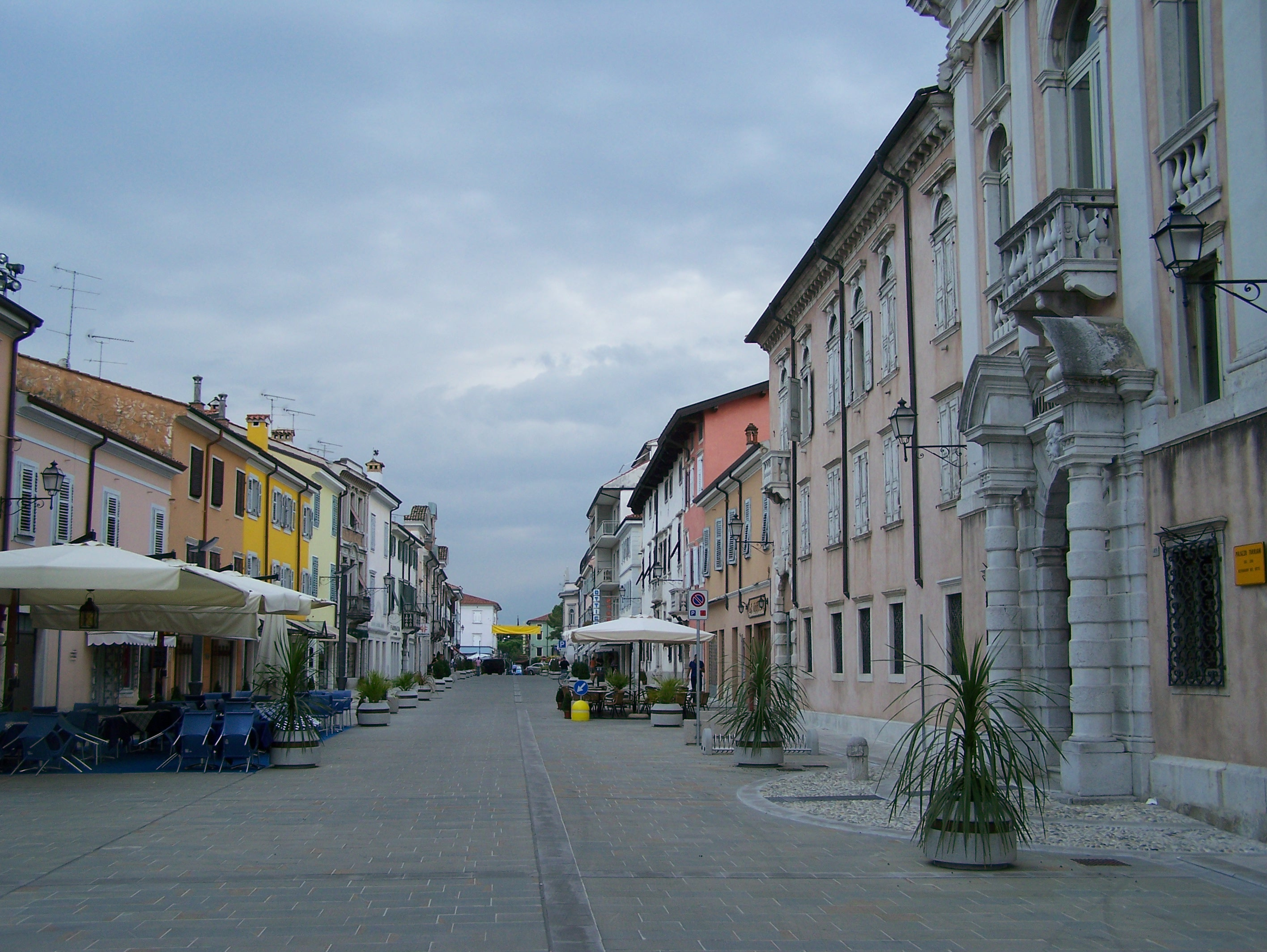 Torriani Palace in Gradisca d'Isonzo, Friuli, Italia. Furlan: Il palaç Torriani a Gardiscje/Gardiscja.